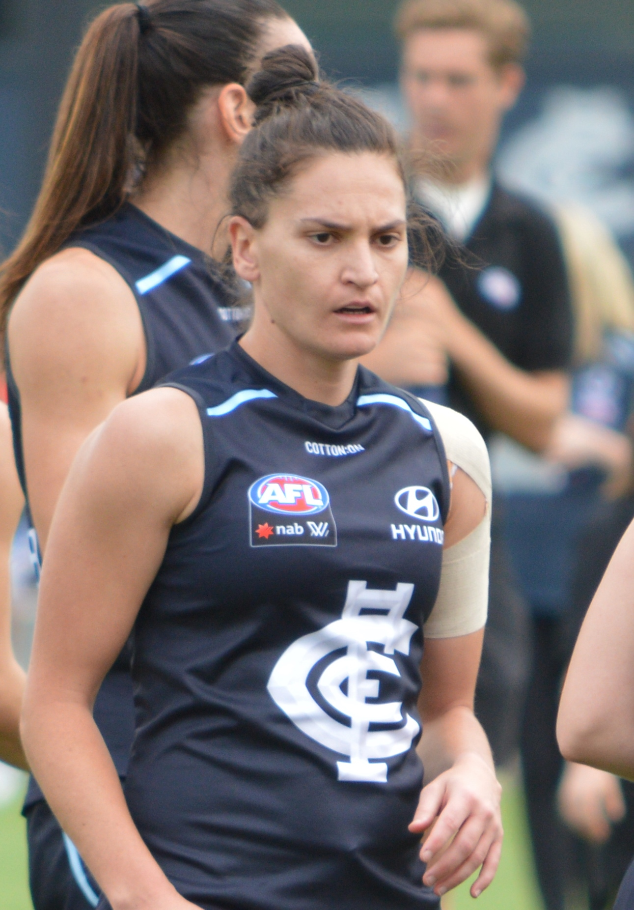 Laura Attard during the round 6, 2018 AFL Women's match between Carlton and Melbourne.